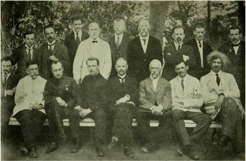 Provisional Government of Siberia, July 1918